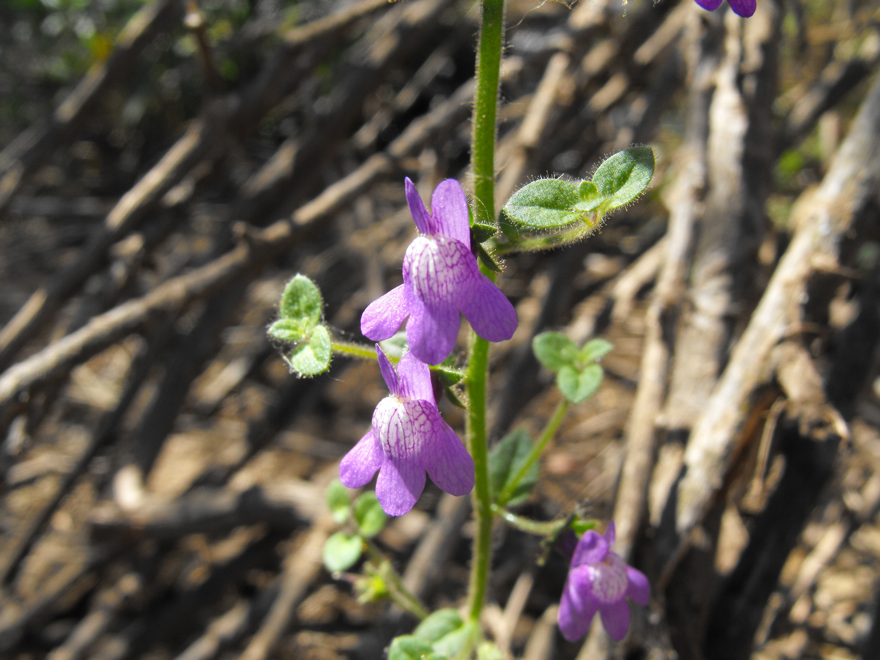 Antirrhinum nuttallianum — Nuttall's snapdragon. At Lake Poway, in San Diego County, NW Peninsular Ranges, Southern California.